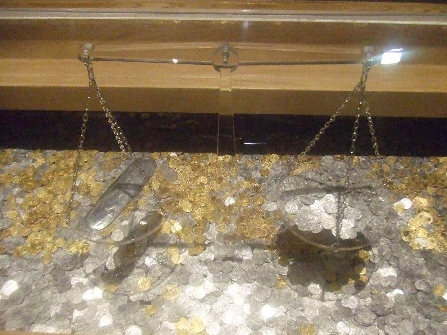 The Pound ! A Pound = 20 shillings = 240 silver pennies [Old Calculations]